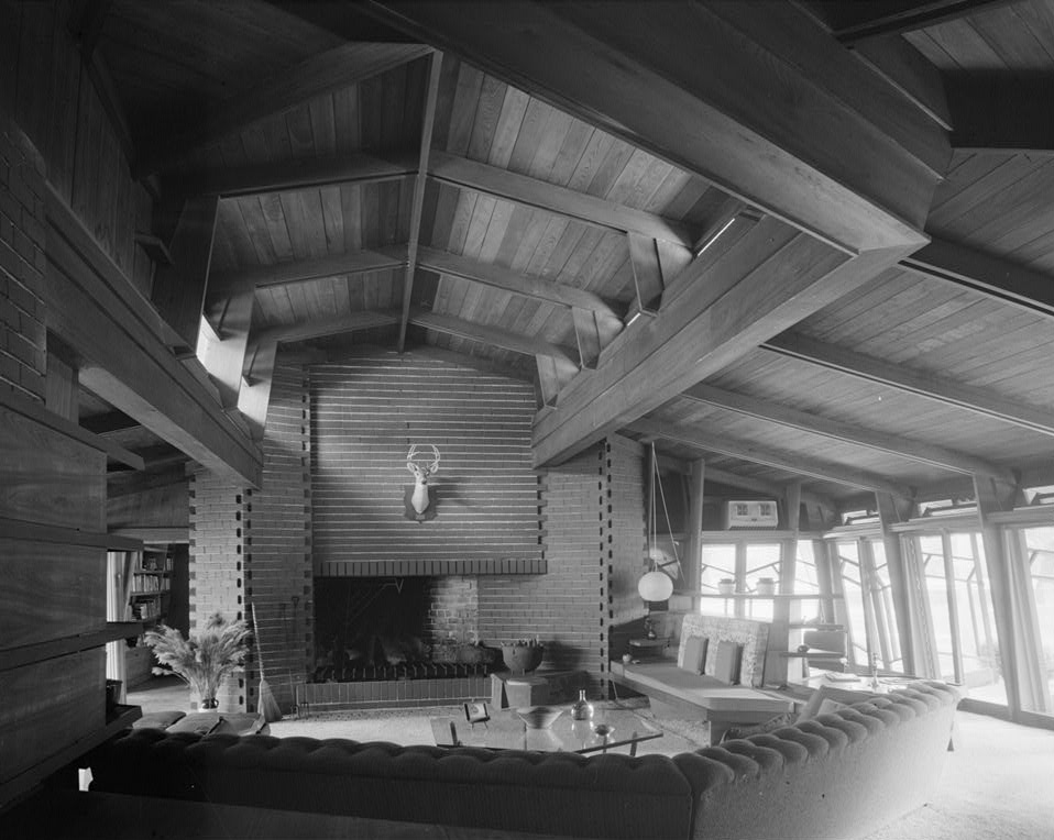 Auldbrass Plantation, River Road, Yemassee, Beaufort County, SC. Living Room looking south.